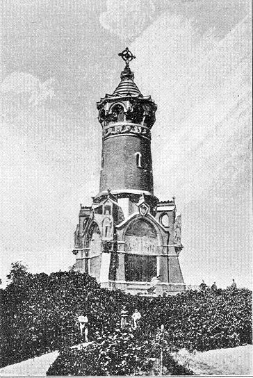 Former war memorial on the Marienberg (hill, 67,7m) in Brandenburg an der Havel, state Brandenburg, Germany. Inaugurated in 1879, broken off in 1945.